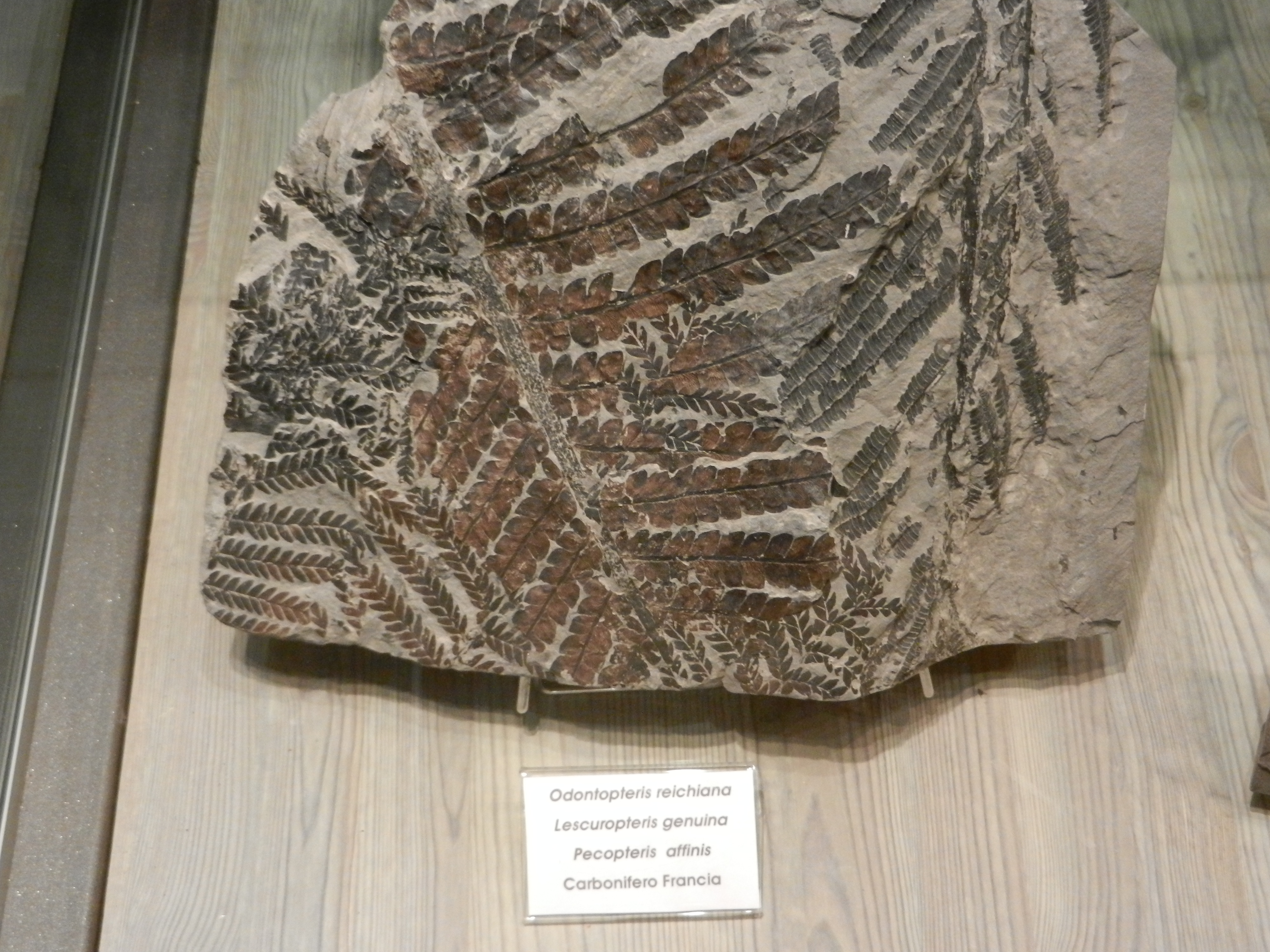 Fossil plants from the Museum Composilvano, Lessinia